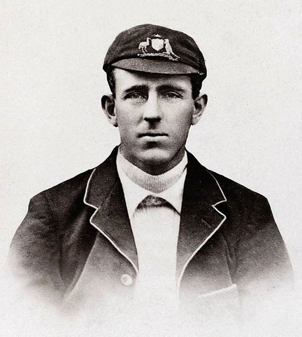 Sport. Cricket. Postcard. Circa 1909. Vernon Ransford, Victoria, (1903-1928) and Australia.